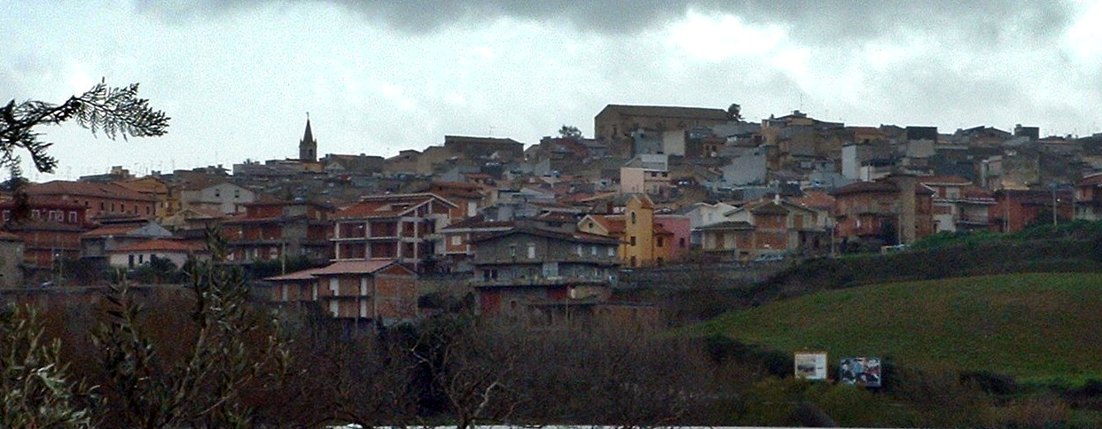 View of Mirabella Imbaccari (CT)